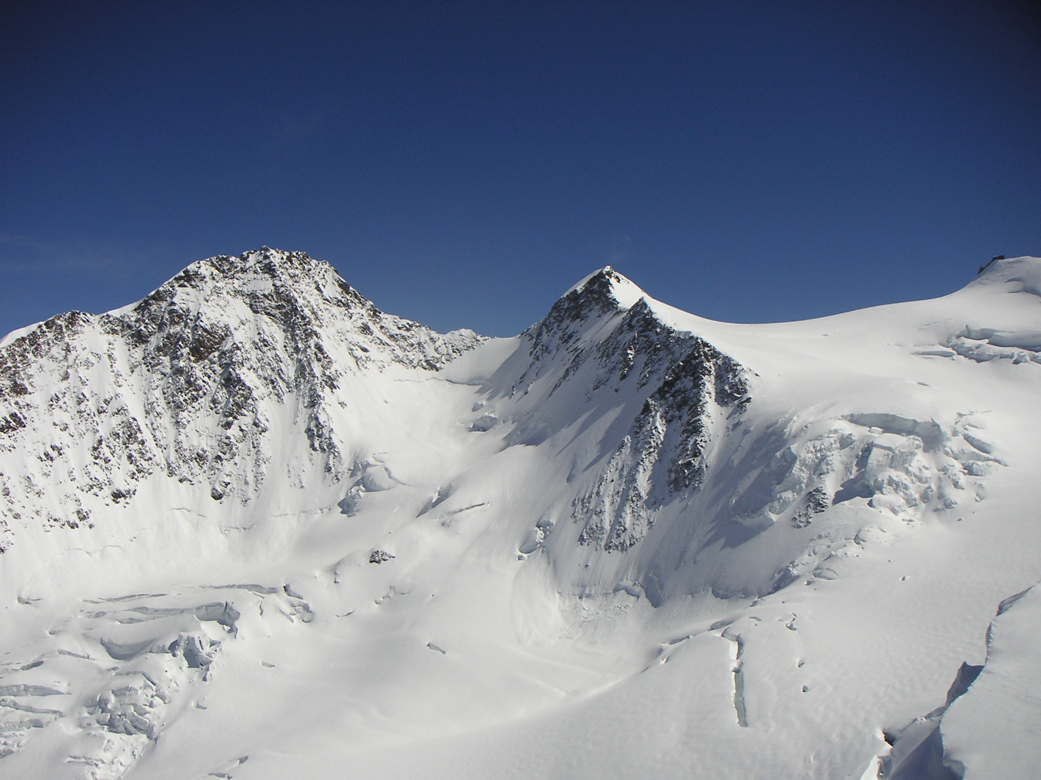 Dufourspitze (left), Zumsteinspitze (center) and Signalkuppe (right) viewed from Lyskamm